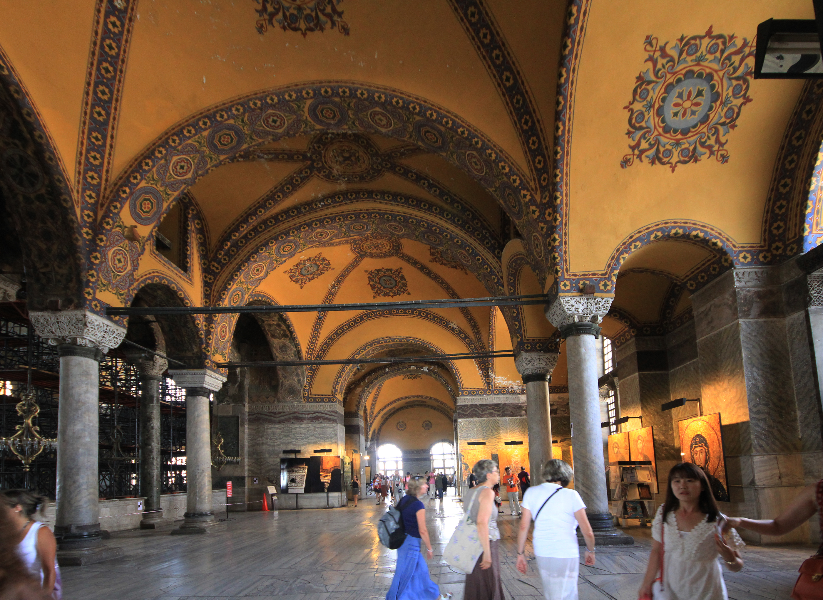 Interior of mosque Hagia Sophia in Istanbul , Turkey